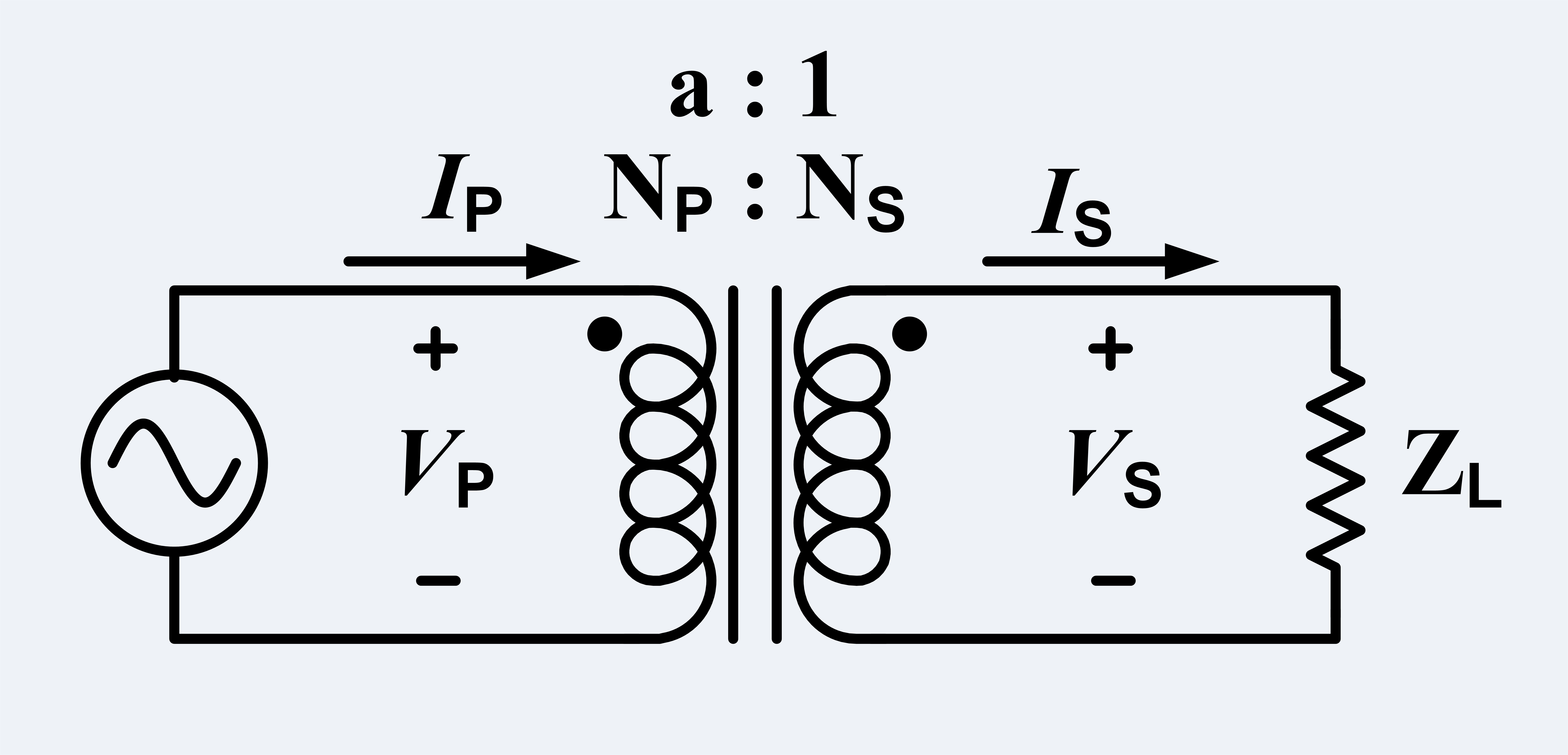 A depiction of an ideal transformer with a source and a load